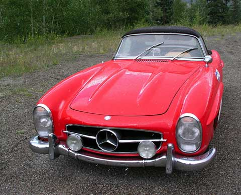 Image of a 1957 300sl Roadster. The 300sl Roadster was built from 1957 until 1962.